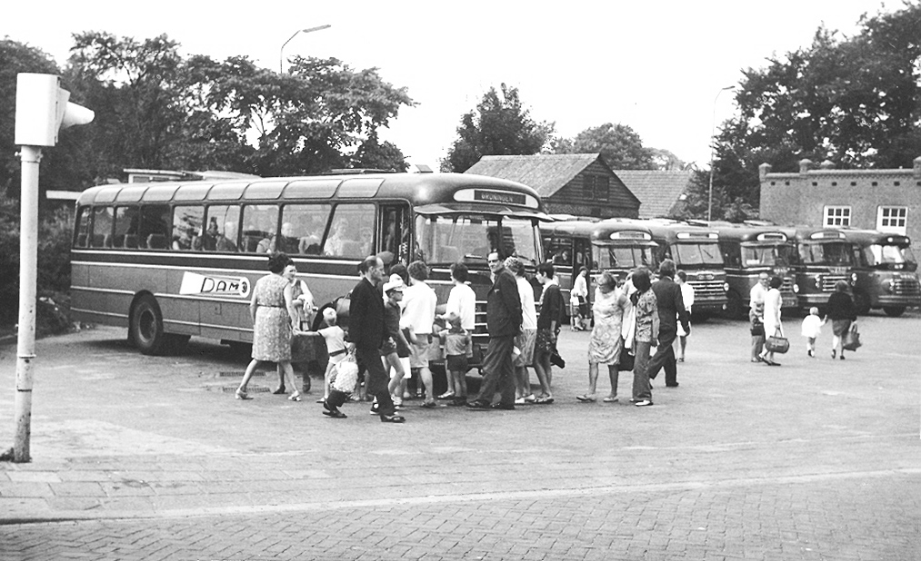 Paardewasch aan de Wijkstraat te Appingedam, vertrekpunt van de bussen van de Damster Auto-Maatschappij, foto augustus 1969.